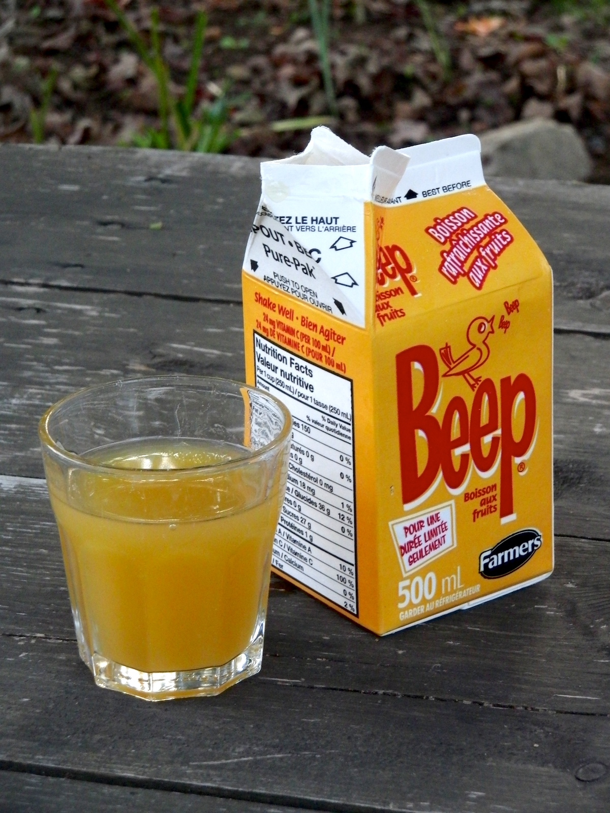 A carton of the soft drink Beep, and a glass of the drink. This is a vintage style carton, used for the temporary revival of the drink in 2012.